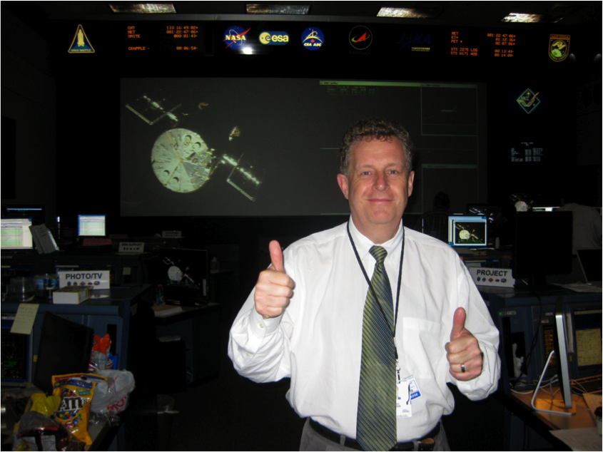 Matt Mountain, director of the Space Telescope Science Institute, gives two thumbs up at NASA's Johnson Space Center as Space Shuttle Atlantis approaches the Hubble Space Telescope during Hubble Servicing Mission 4 (STS-125) in May 2009.